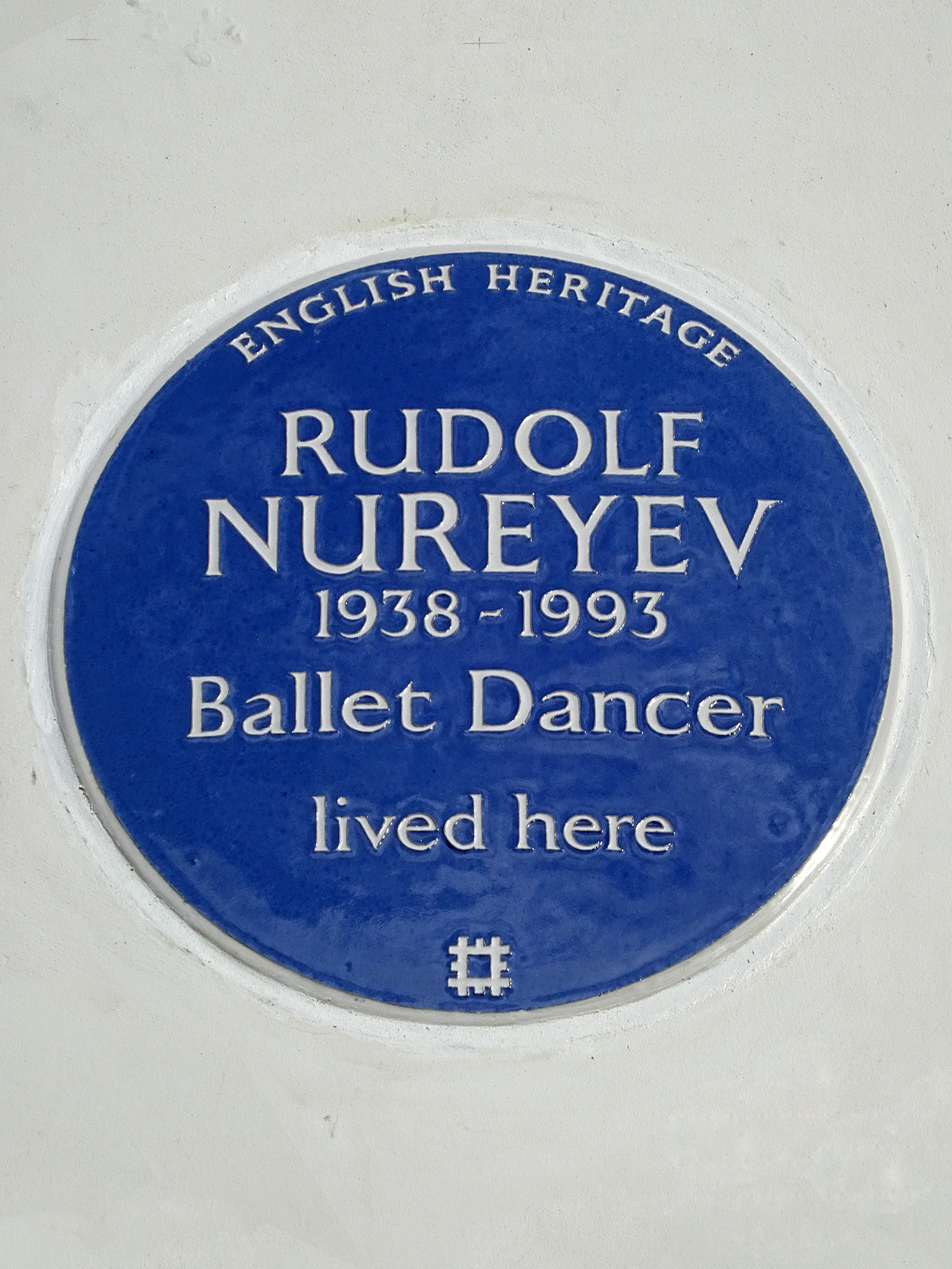 Blue plaque erected on 21st September 2017 by English Heritage at 27 Victoria Road, Kensington, London W8 5RF, Royal Borough of Kensington and Chelsea